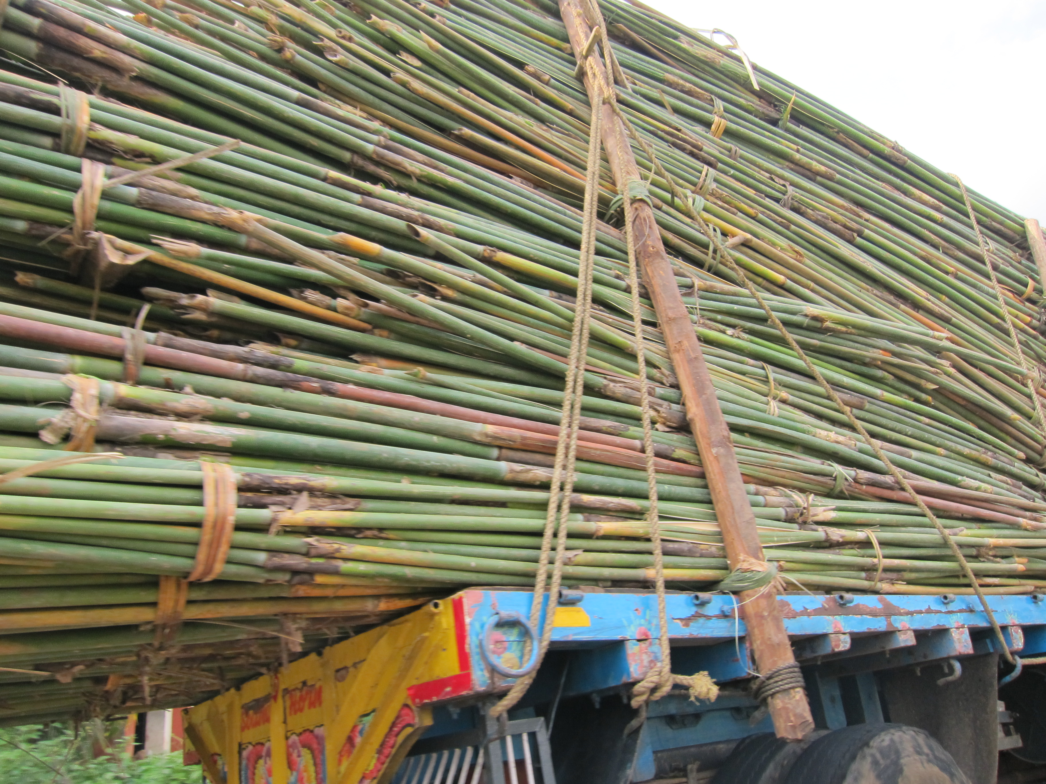 elephant bamboo - India reed bamboo - ഈറ്റ